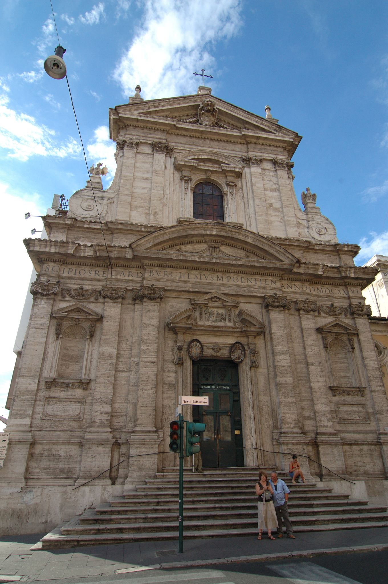 Facade of Santa Maria della Vittoria